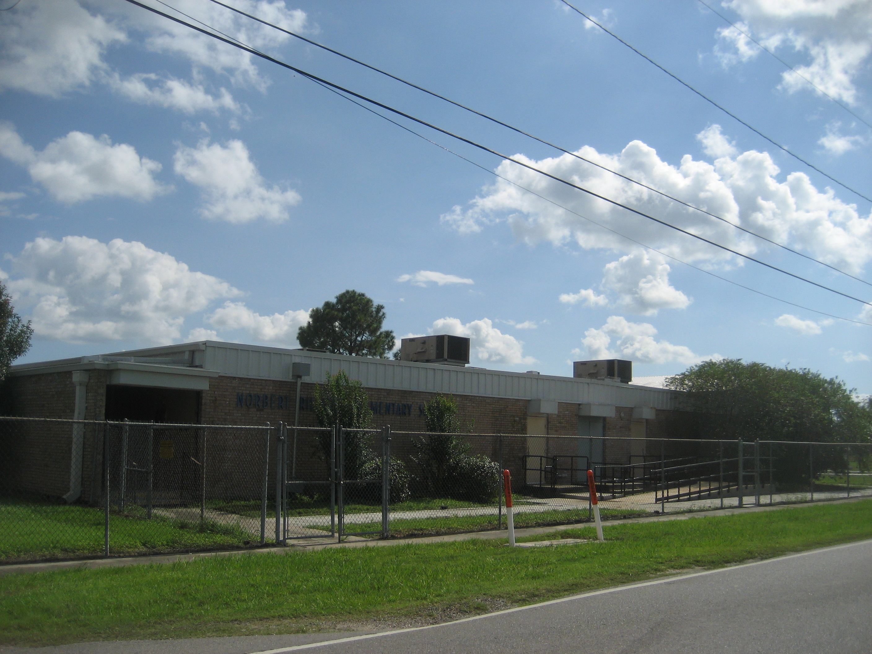 Norbert Rillieux Elementary School, Waggaman, Louisiana